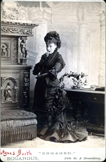 Agnes Booth in Engaged, 1879